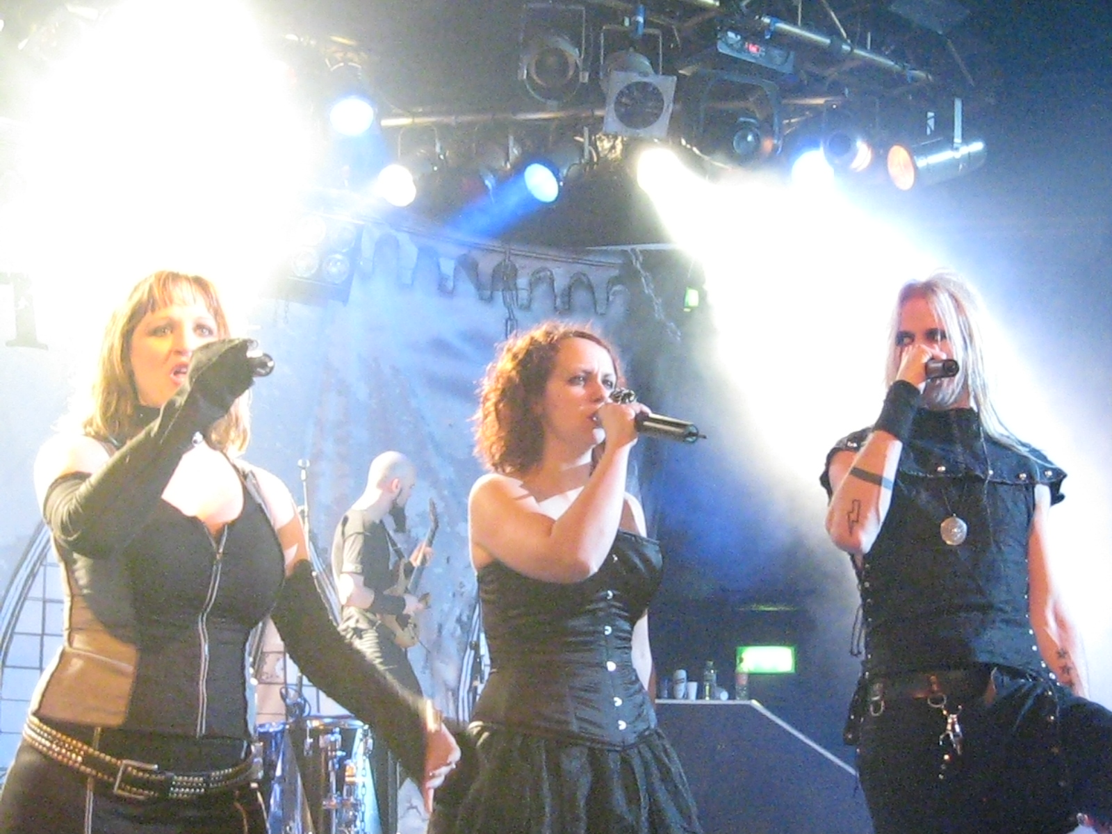 Therion